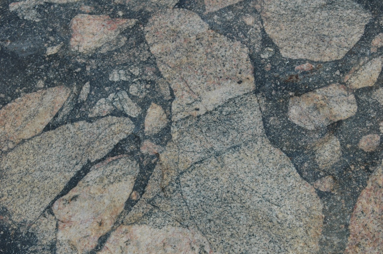 Pseudotachylite breccia of Vredefort in South Africa. Light-coloured granite in dark-coloured pseudotachylite. Photo scale: about 1 metre across from left to right.